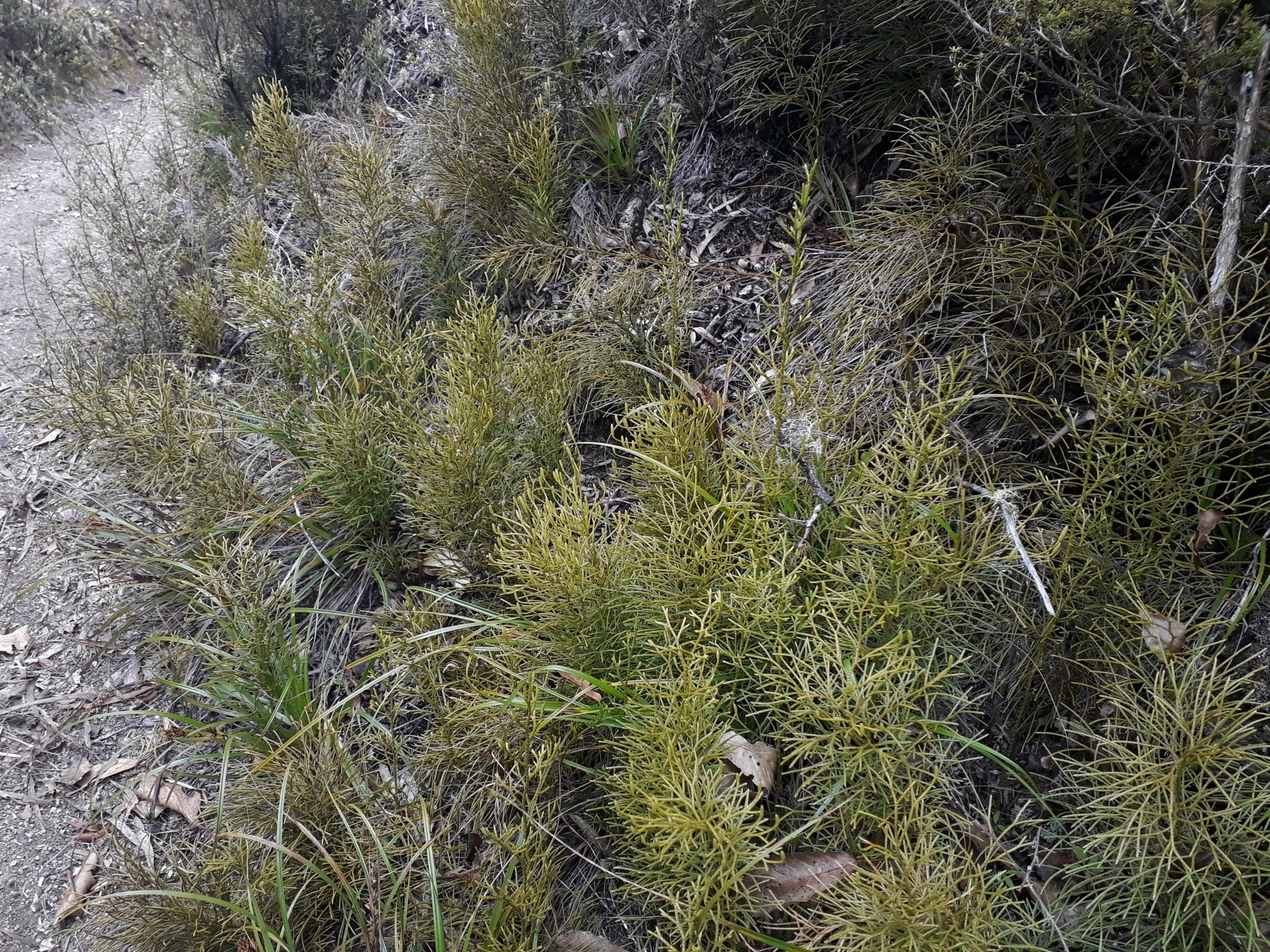 Lycopodium deuterodensum at Pureora Forest Park, NZ-WK-TP, NZ-WK, New Zealand